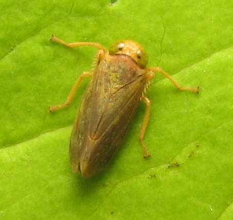 Leafhopper, Jikradia olitoria. Bowman's Hill Wildflower Preserve, Bucks County, Pennsylvania, USA.